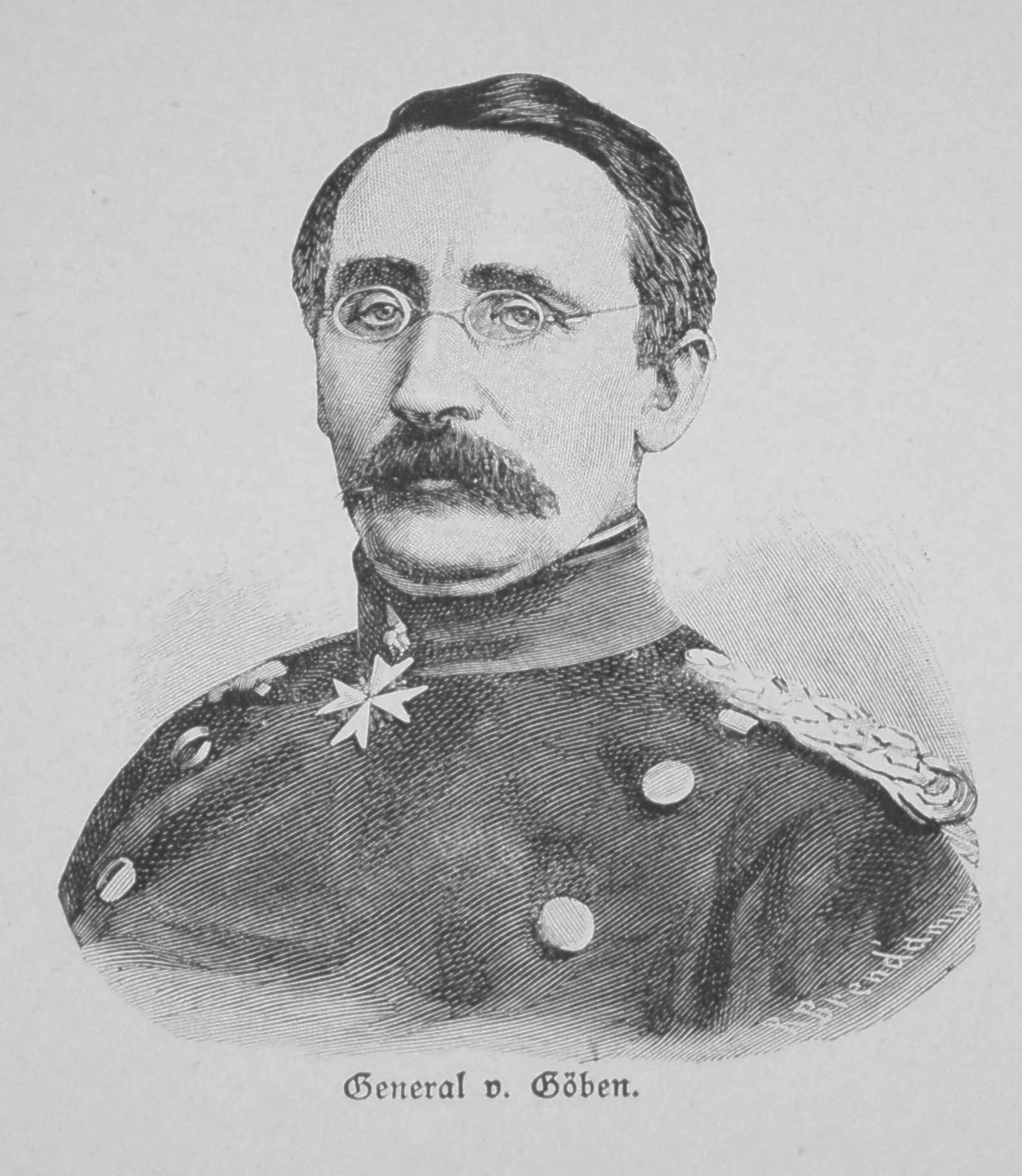 general von Goeben